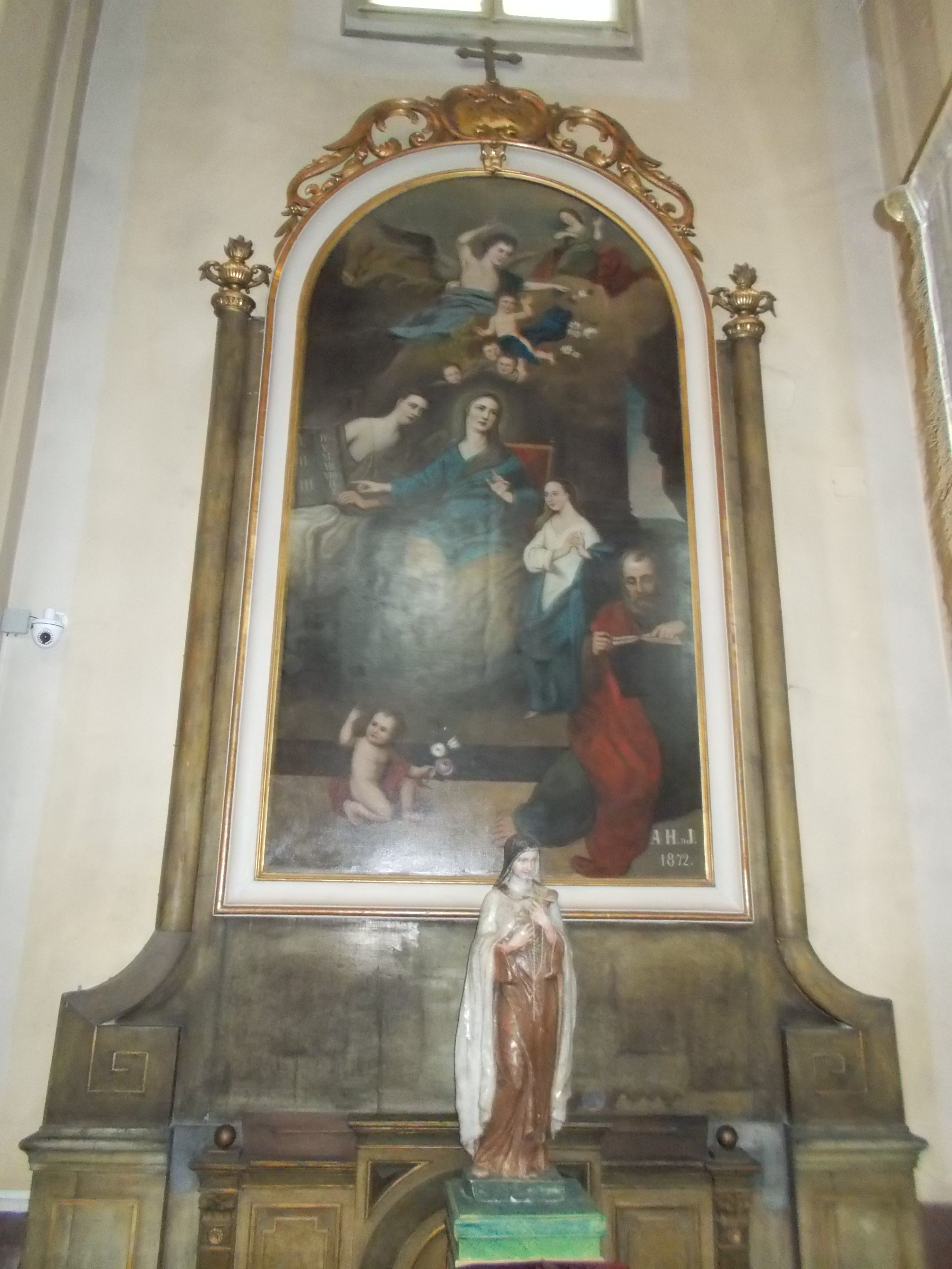 Saint Catherine Church. Altar of Saint Anna (C. Sauer, 1872).- Attila Street, Tabán, Budapest